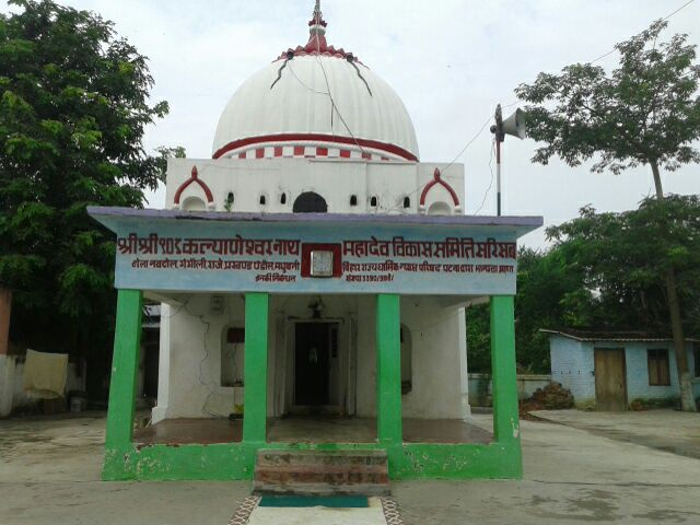 मनमोहन द्वारा स्थापित नवटोल शिव म्ंदिर्